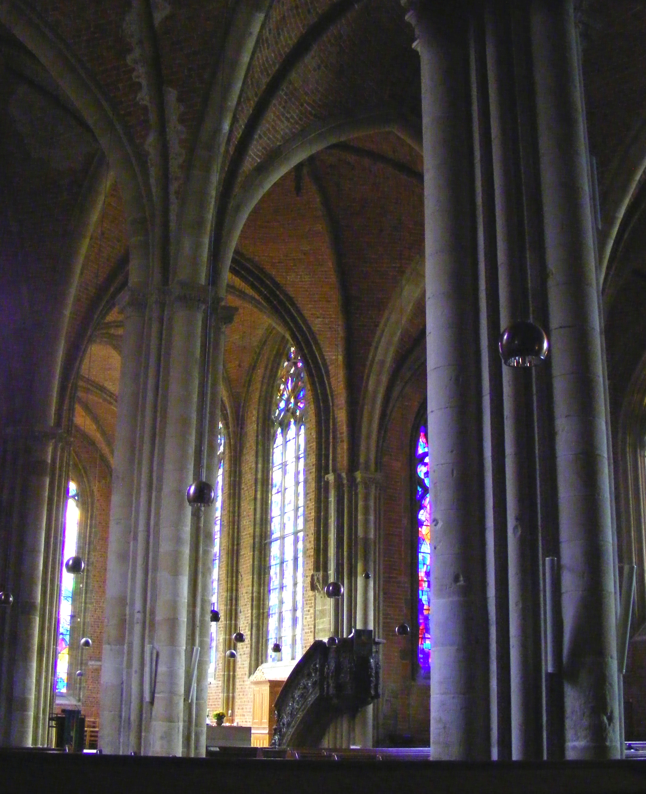 Choir and pulpit of Kirche Unser Lieben Frauen (Our Dear Lady`s Church) in Bremen, seen from the left aisle